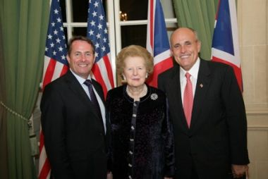 Dr Liam Fox MP with Mayor Rudolph Giuliani and The Rt Hon. The Baroness Thatcher